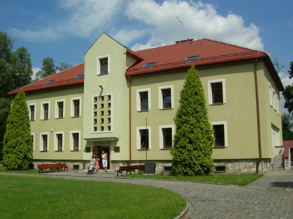 The Łamboniwice museum (Lamsdorf